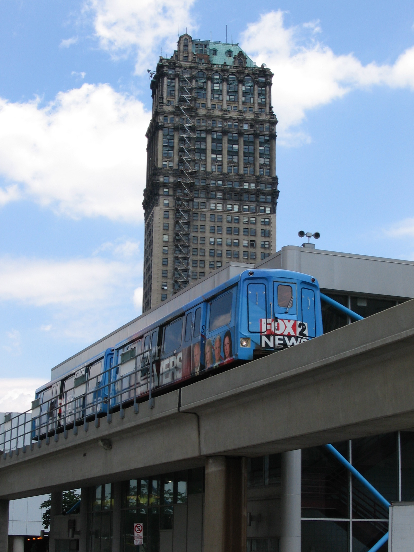 The People Mover at the Times Square station in Detroit, Michigan. Book Tower is in background.